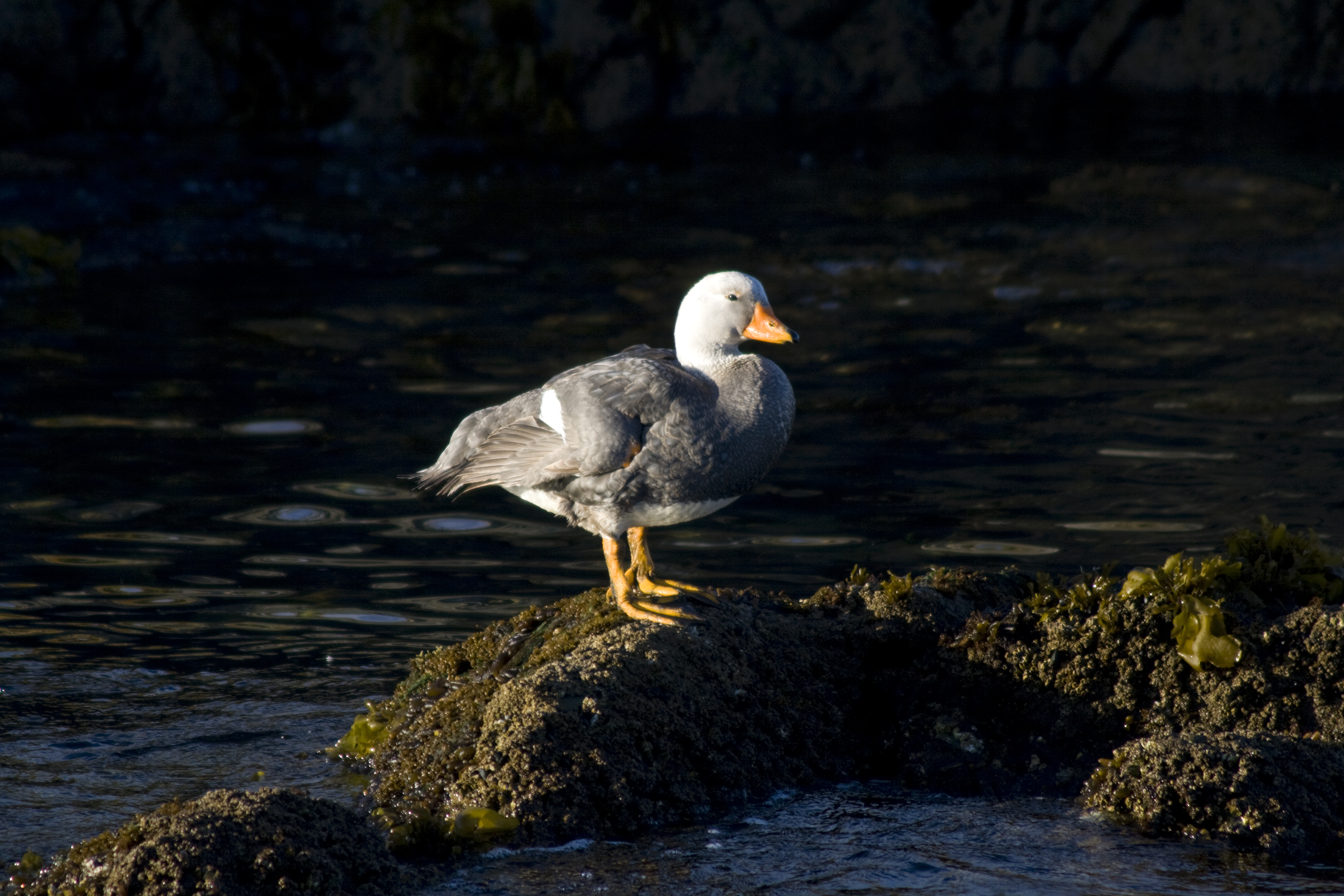 Flightless steamer duck (Tachyeres pteneres)